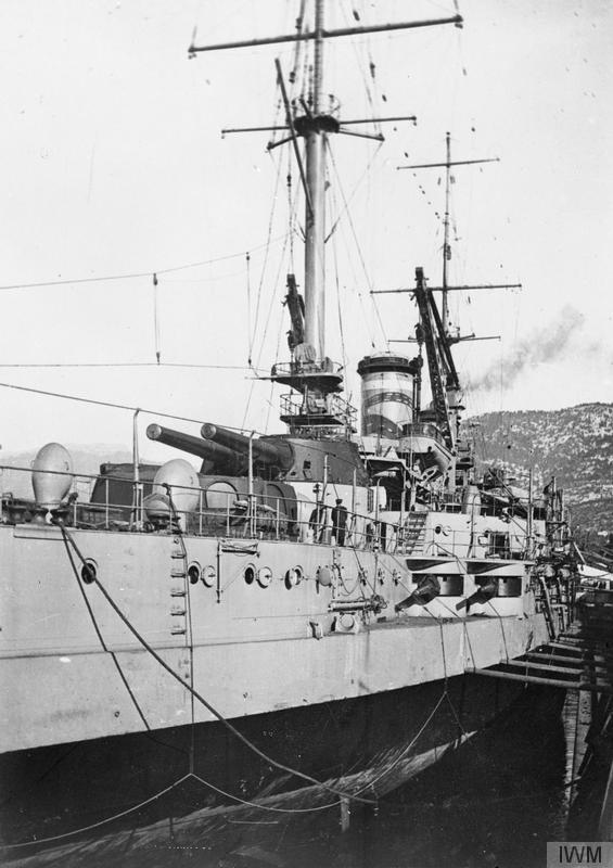 The French Navy in the Mediterranean, 1914-1918 The French battleship LORRAINE in dry dock at Toulon, 27 December 1916.